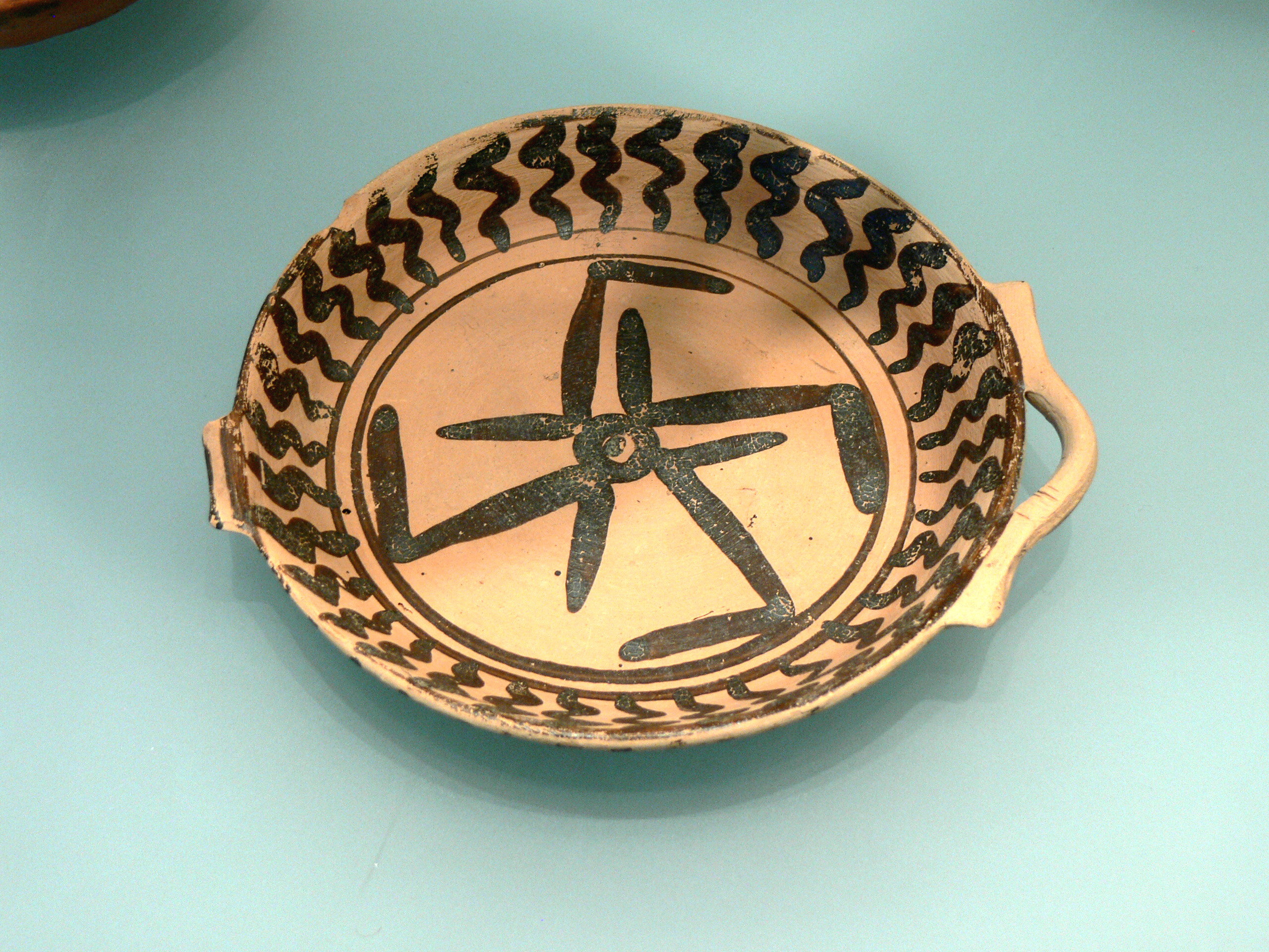 Ny Carlsberg Glyptothek, Copenhagen. Archaic Greek bowl showing a swastika.